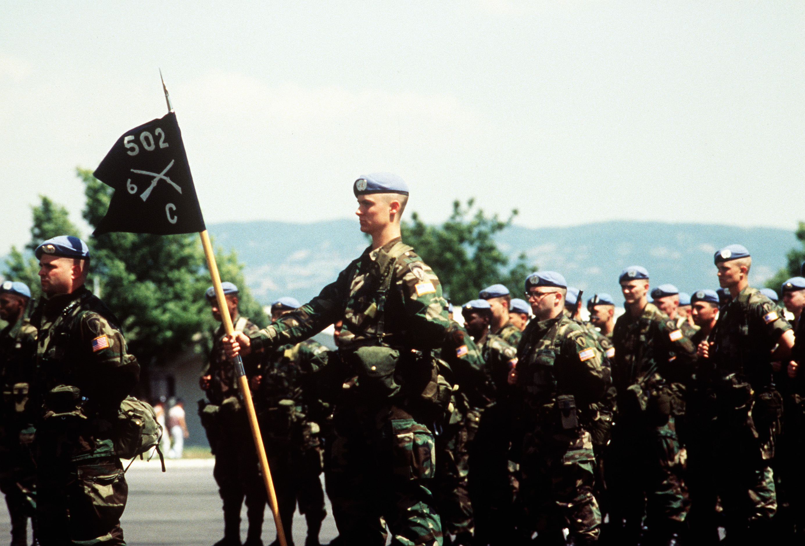 Soldiers from the 6/502nd Infantry Brigade, Berlin, Germany, stand at attention during a formal ceremony held to welcome their arrival in Macedonia. Operation Able Sentry. Task Force Able Sentry (TFAS).